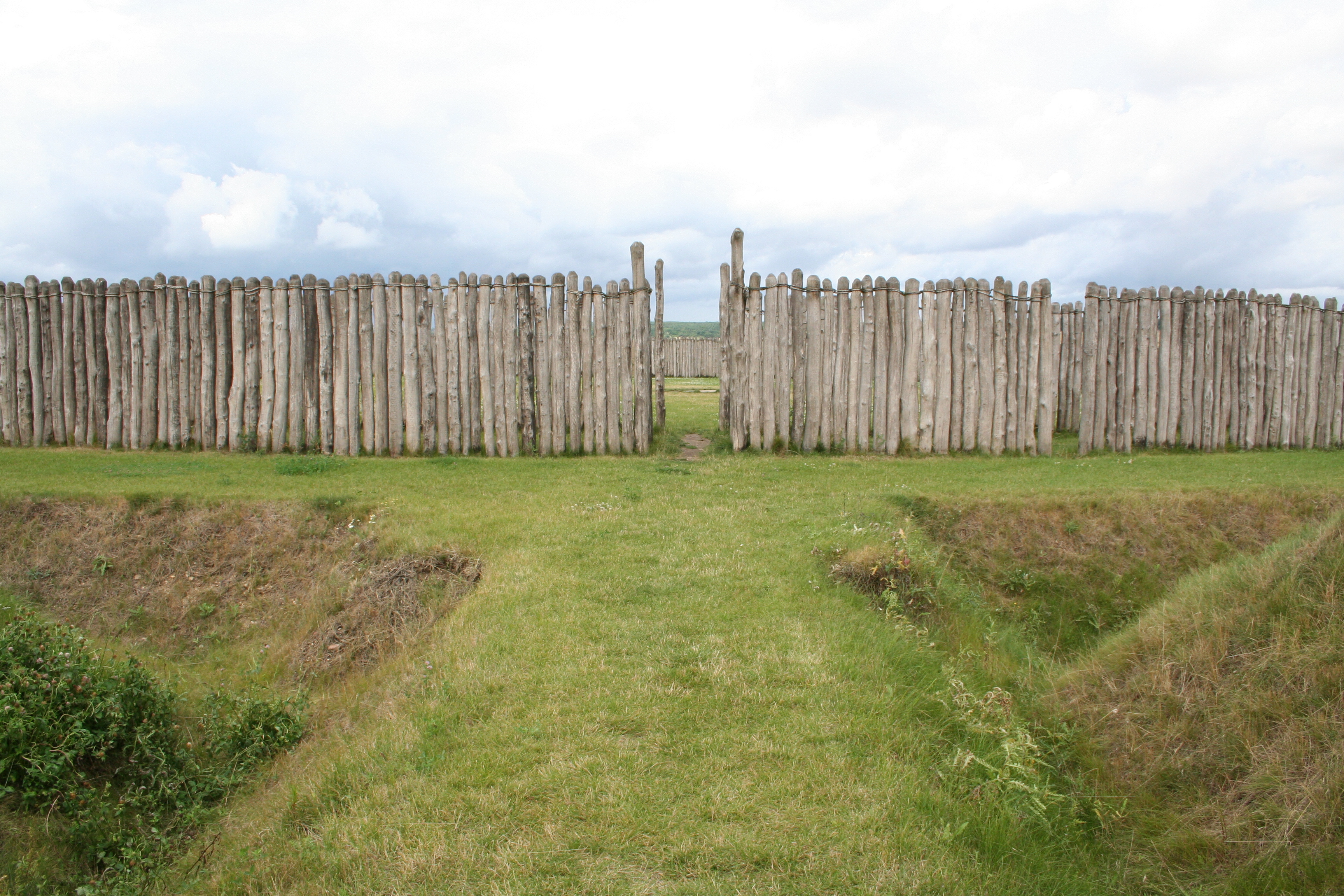 Circular ditch of Goseck